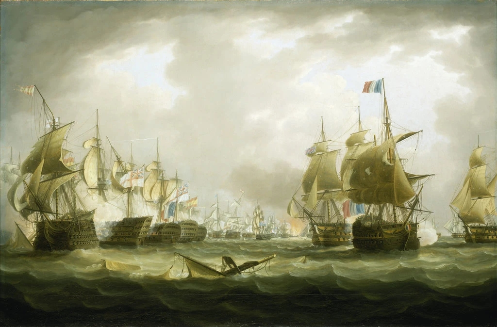 'The Battle of Trafalgar, 21 October 1805: beginning of the action', oil on canvas by Thomas Buttersworth. In the right foreground is the French ship ‘Bucentaure’ in starboard-bow view, with her mizzen mast and main topgallant mast shot away. In port-bow view and passing astern of her is the British ‘Neptune’, delivering raking fire. Astern of her and only half in the picture is the ‘Leviathan’ port bow view. In the left foreground the ‘Santissima Trinidad’ is shown in port bow view. Her main and mizzen masts and fore-topgallant mast are being shot away by the ‘Victory’, which is passing astern of her as she breaks the line. Only her stern, in port-quarter view, can be seen and her mizzen topmast is falling. Beyond her, also in port-quarter view, is the ‘Redoutable’ with the ‘Téméraire’s stern seen on her starboard side, the latter also engaged with the Spanish ‘Neptuno’. In the centre background is the ‘Euryalus’ frigate, in port-quarter view, and the bow of the ‘Royal Sovereign’ can be seen as she breaks the line astern of the ‘Santa Ana’, in starboard-bow view losing her main topmast. A mast and top with a yard and sail is in the water in the centre foreground. Buttersworth painted this as one of a pair, the other depicts the storm after the battle.